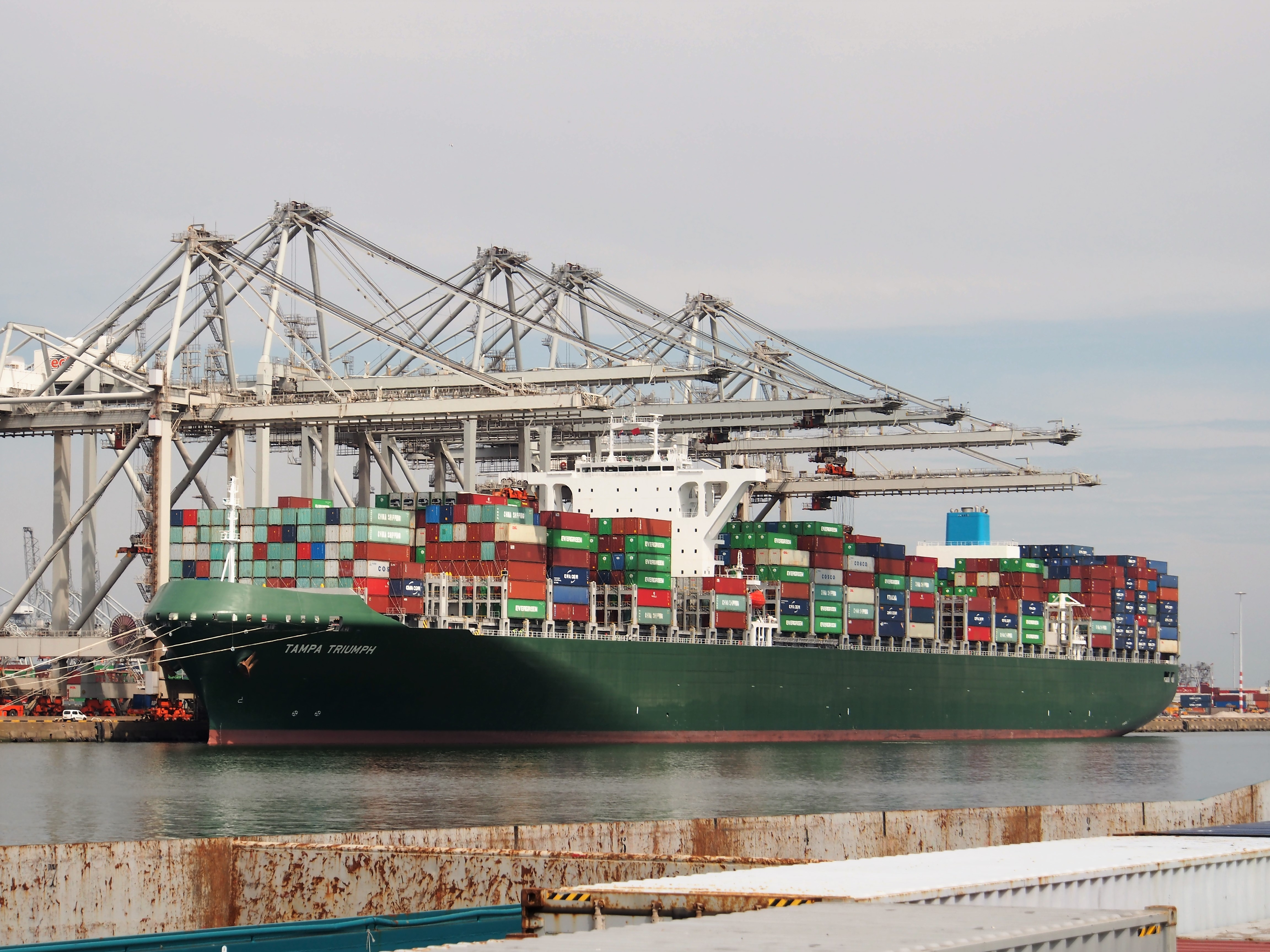 Vessel photographed at Port of Rotterdam, The Netherlands.